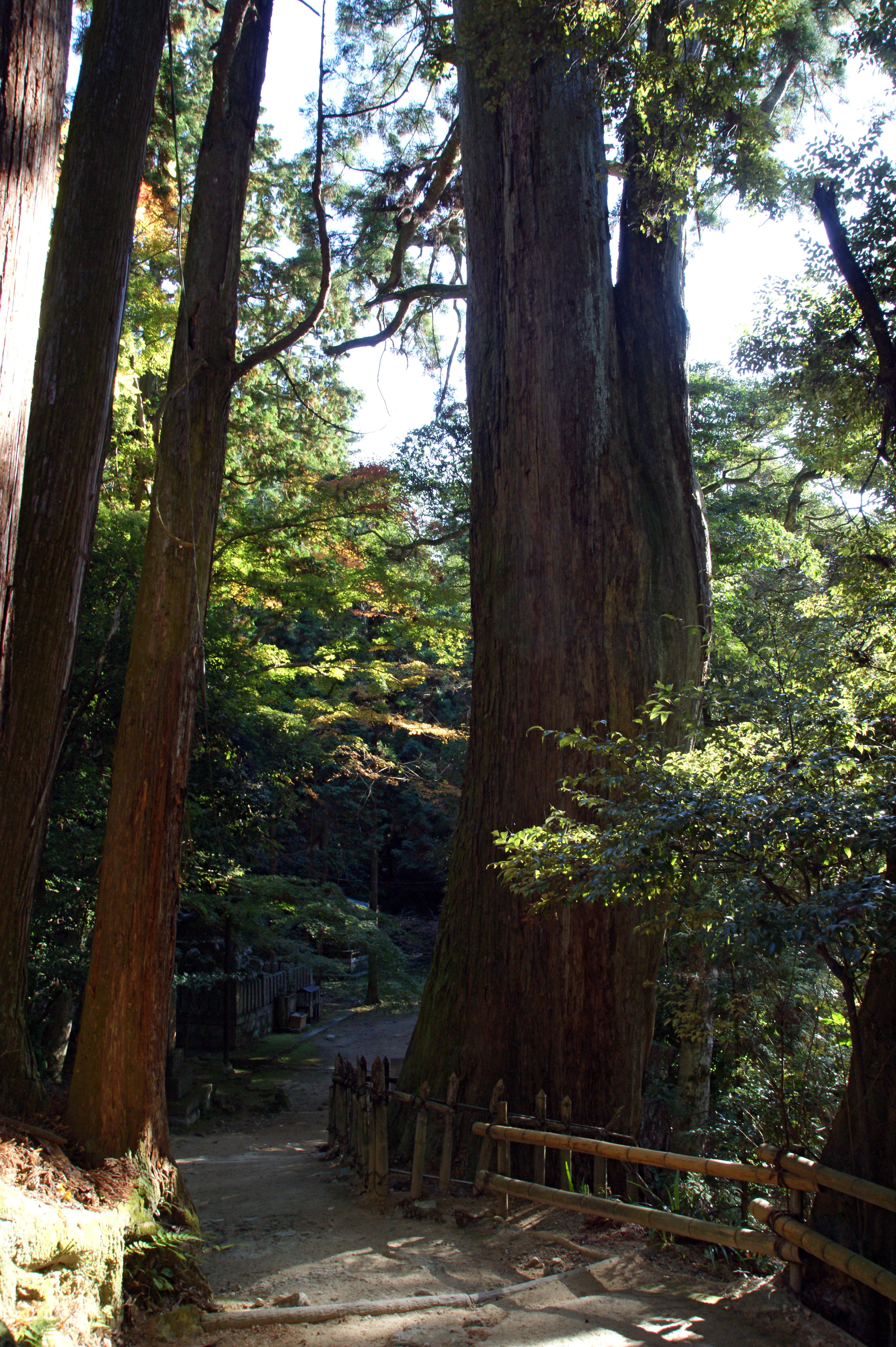 Engyoji, Himeji, Hyogo prefecture, Japan